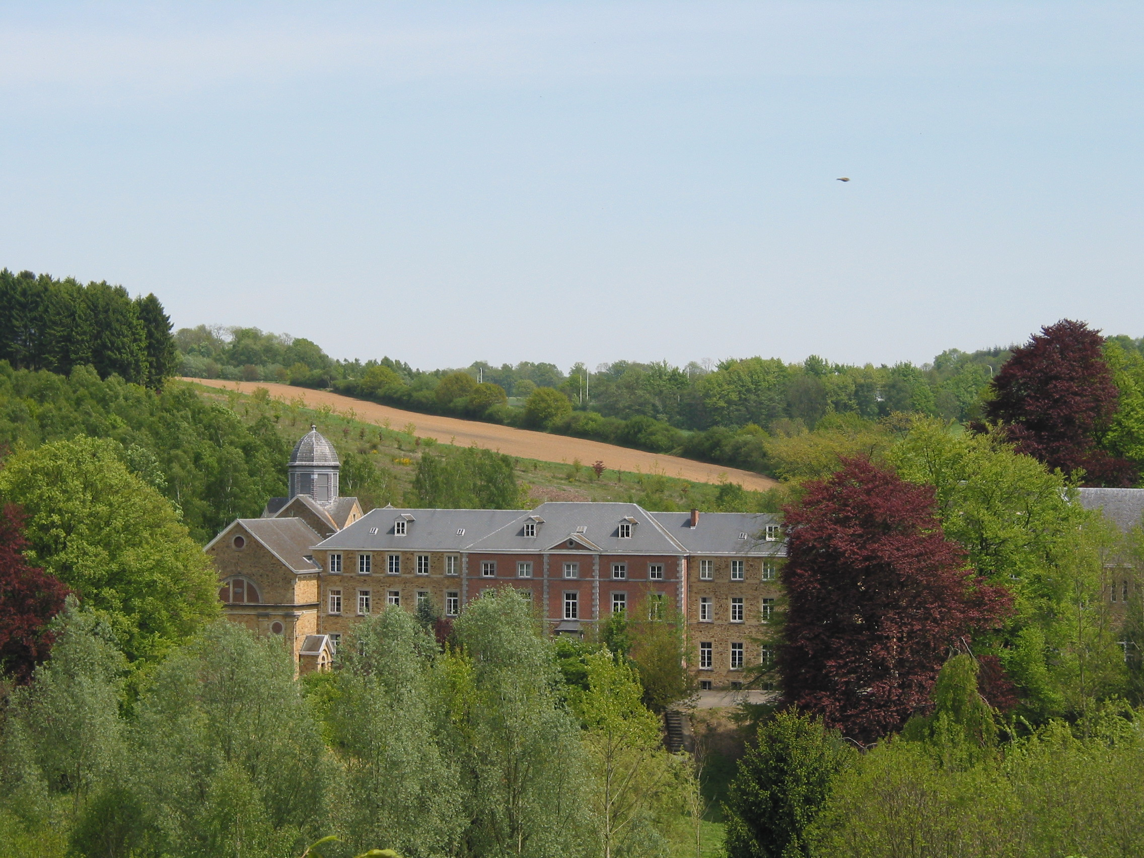 Natoye (Belgium), the castle.